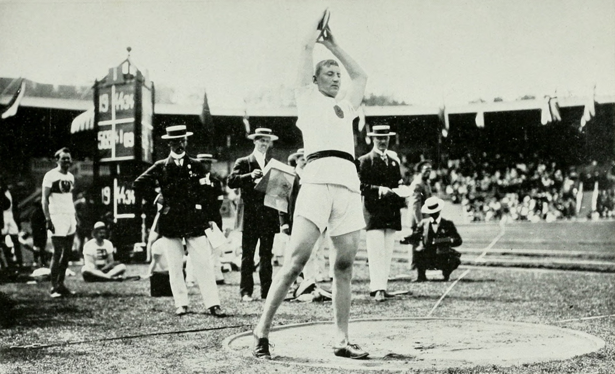 Armas Taipale during the discus throw competition at the 1912 Summer Olympics